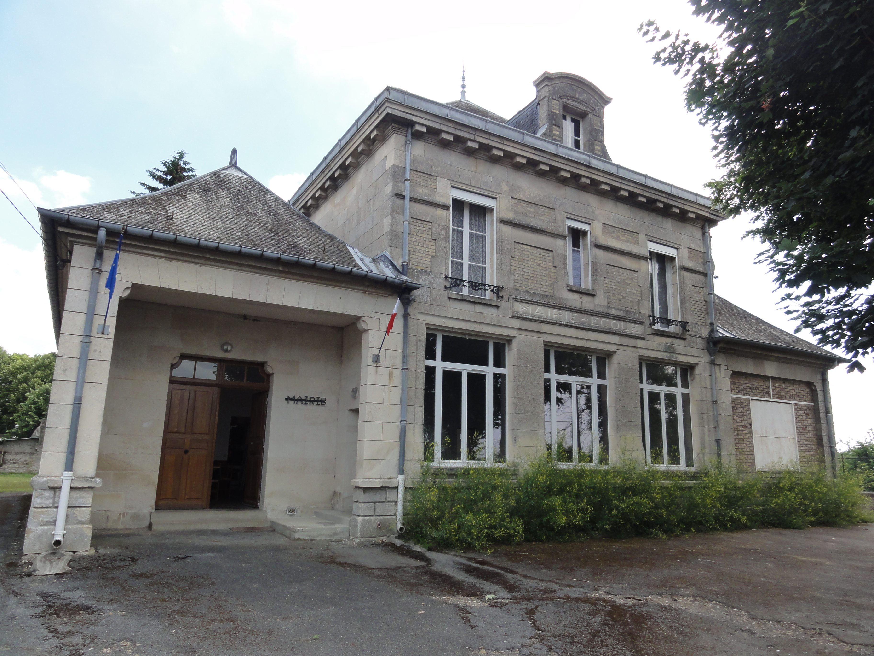 Chavigny (Aisne) mairie-école